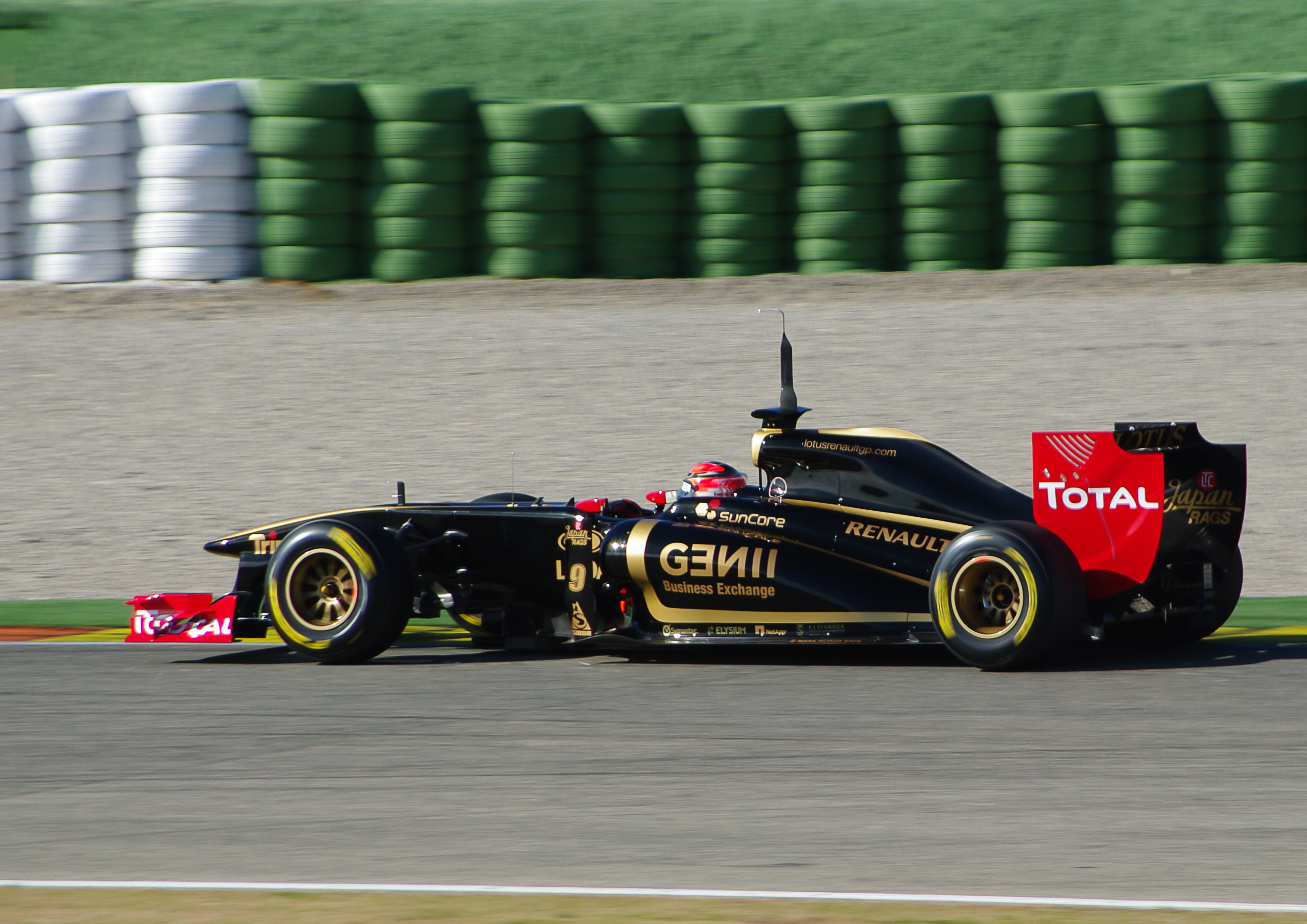 Robert Kubica testing in Valencia in the new Renault R31. This was a few days before his life threatening rally crash. The car has a large aero sensor atop the roll over bar.